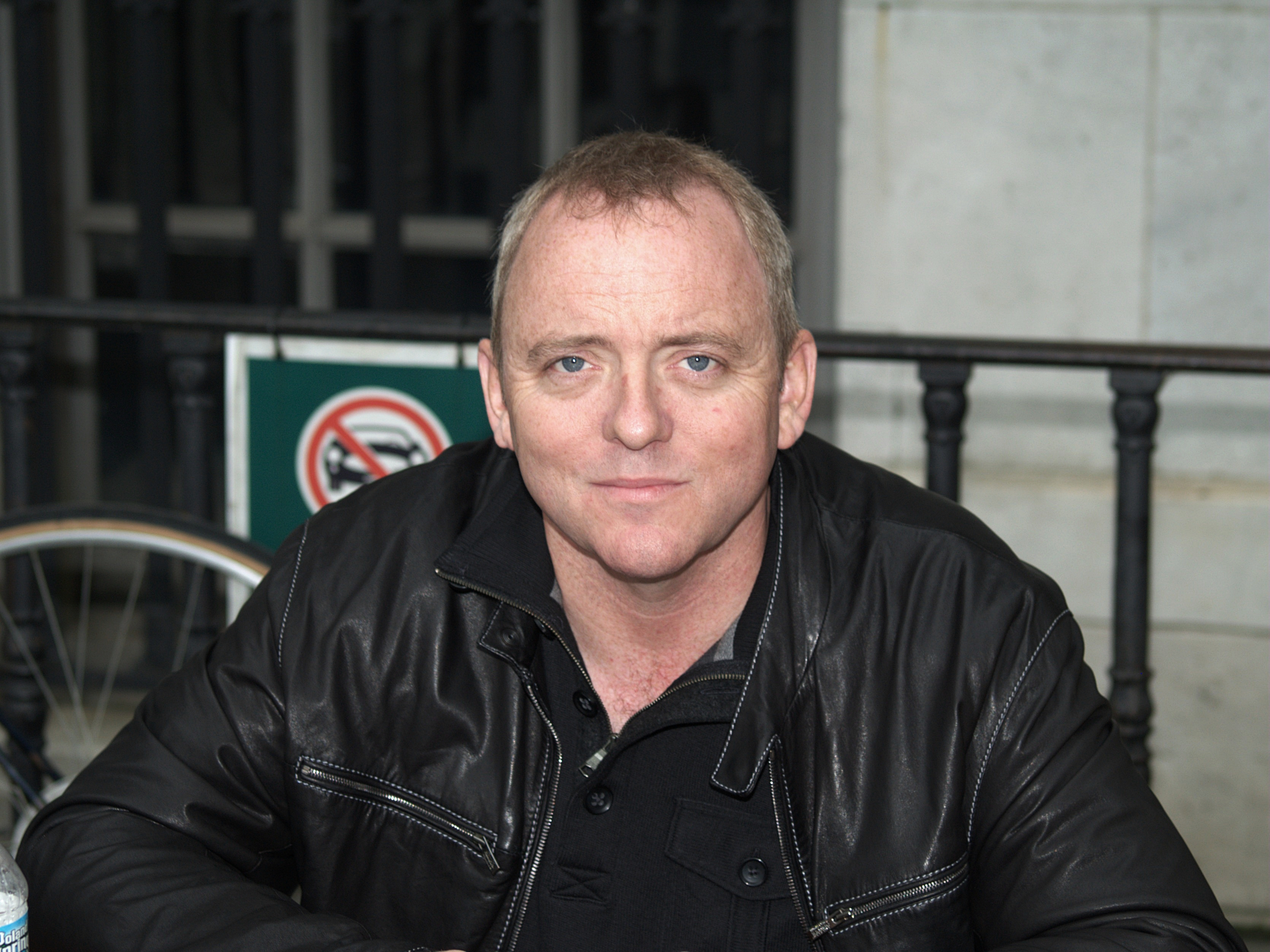 Dennis Lehane, author of Mystic River, at the 2010 Brooklyn Book Festival.